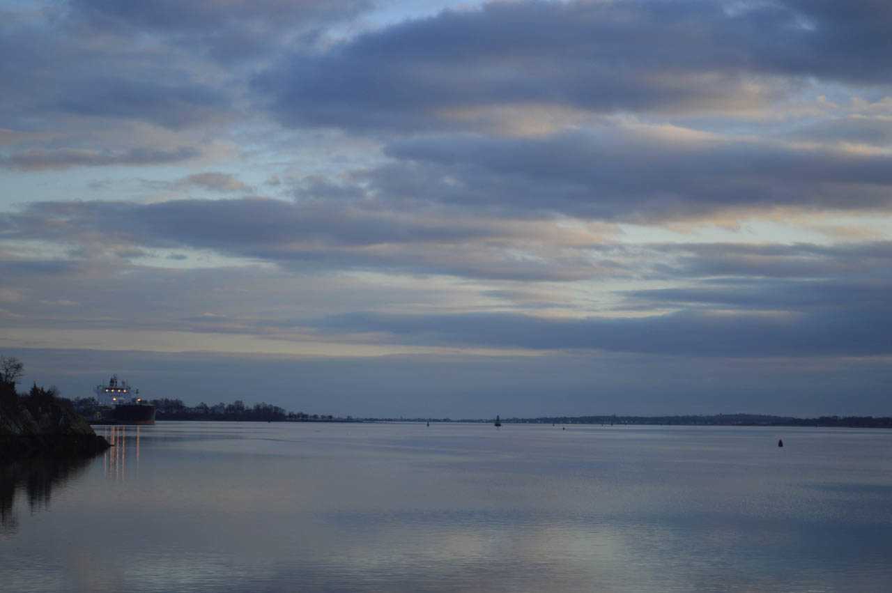 View of the Narragansett Bay from the East Bay Bike Path near East Providence, Rhode Island